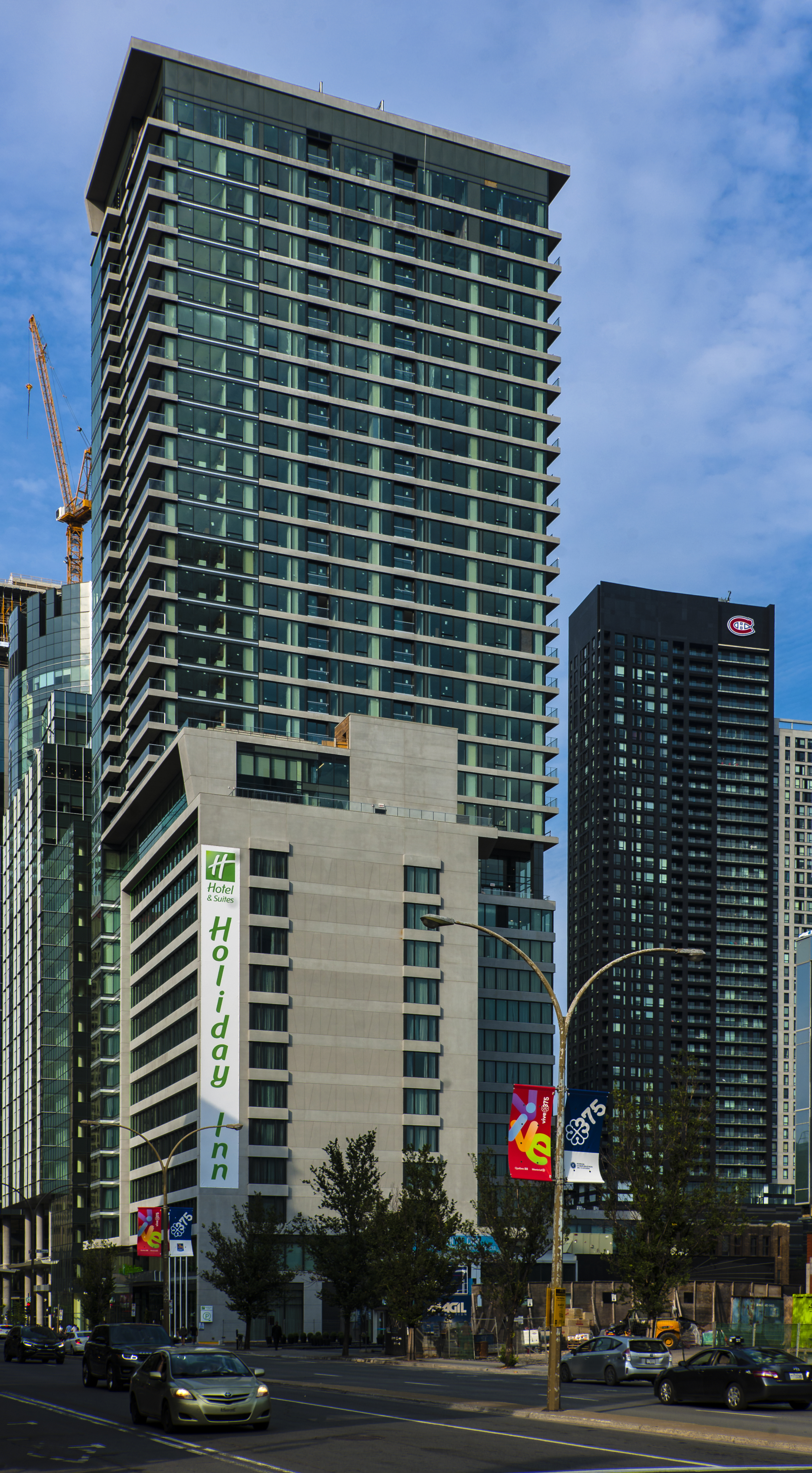 The Holiday Inn Downtown Montreal and the Tour Des Canadiens, seen from the intersection of Boulevard Réne Lévesque and Rue Mackay